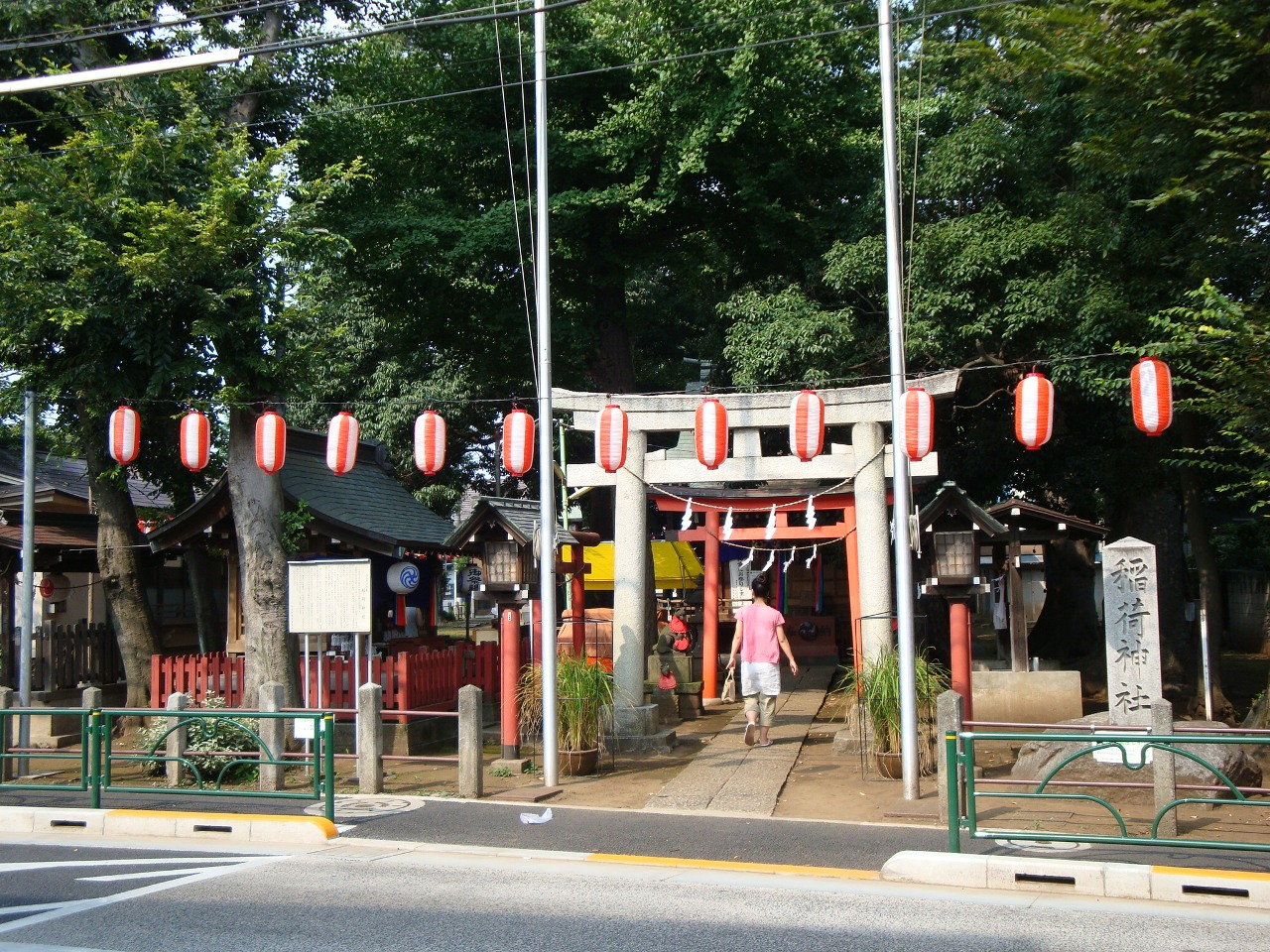 Sho-an Inari Shrine